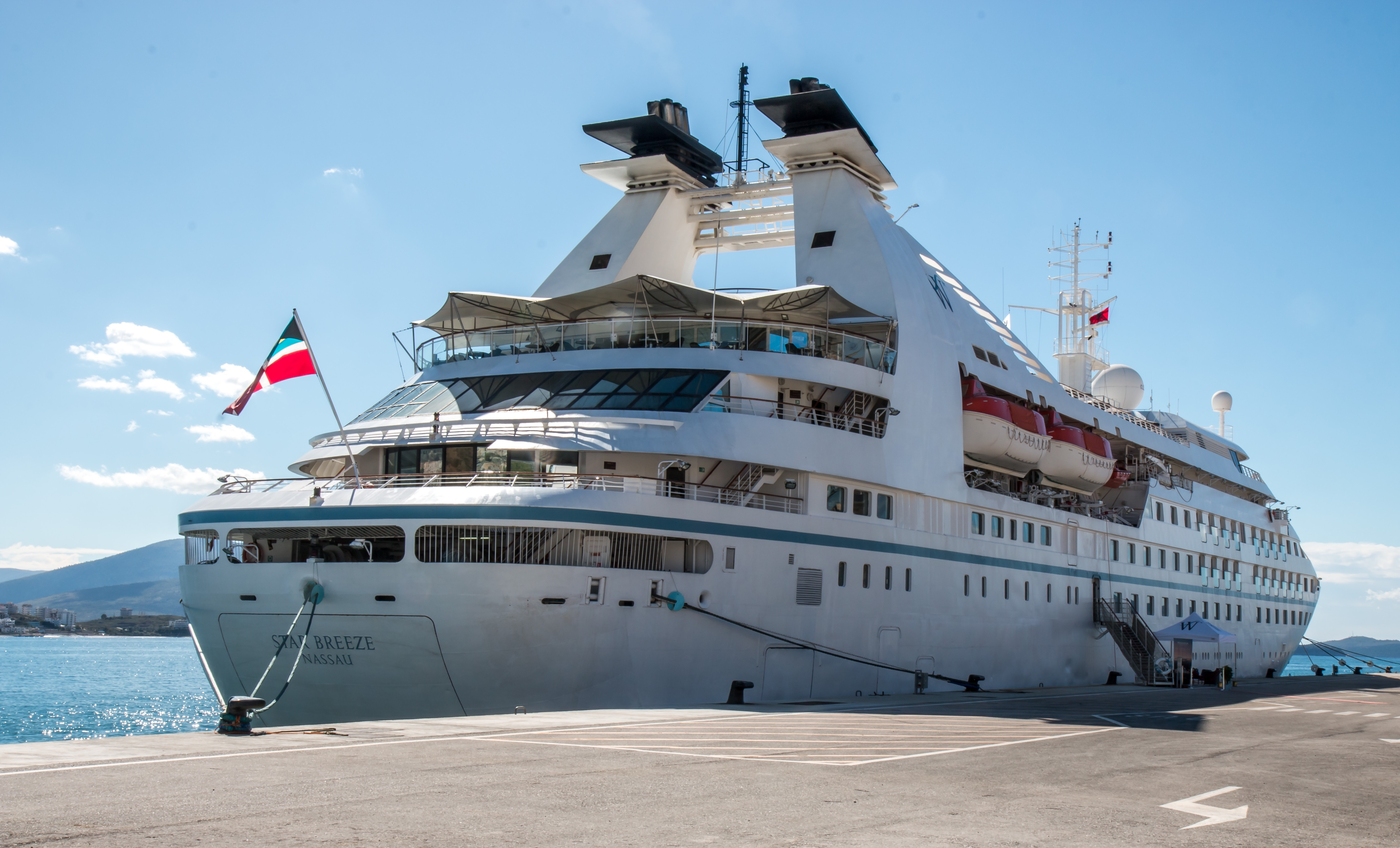 Wind Star Breeze in Sarandë, Albania